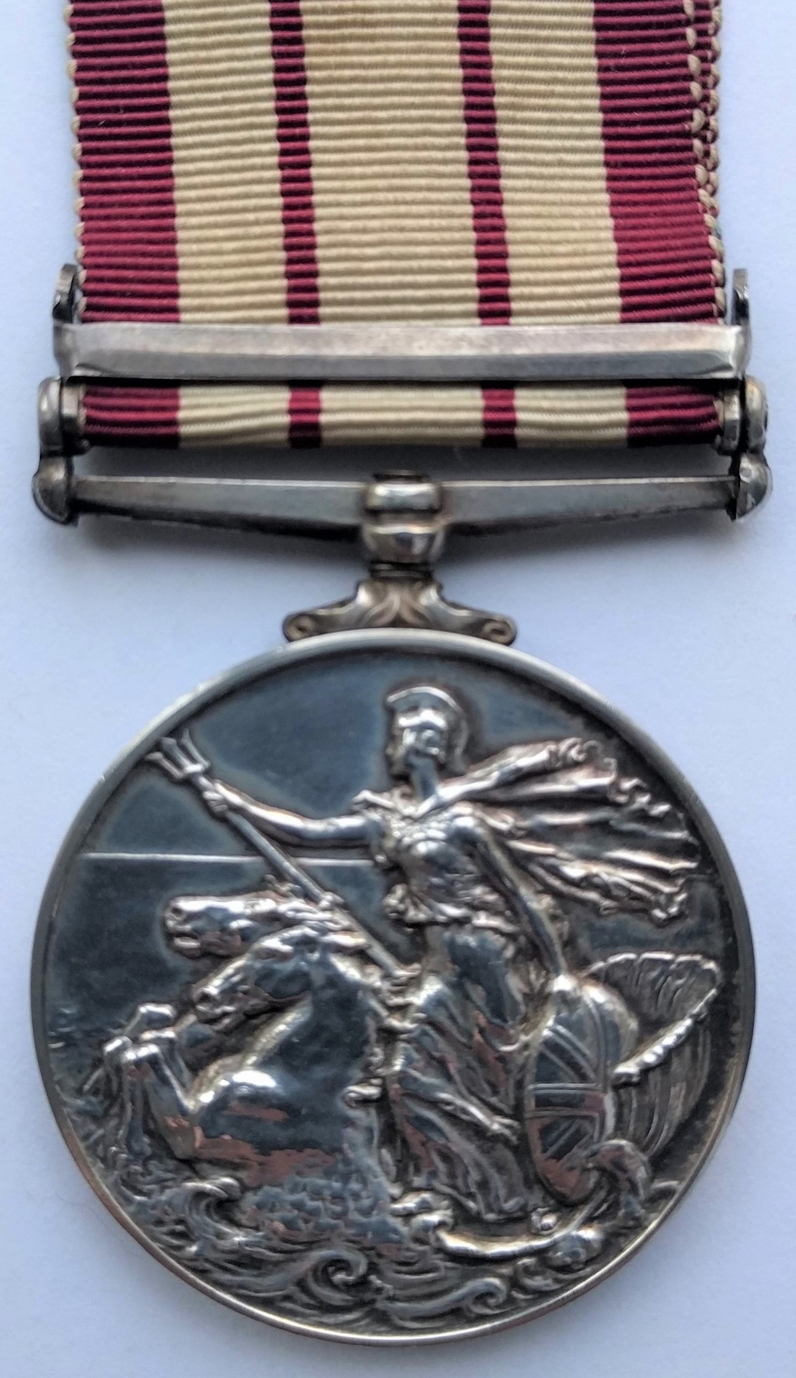 Close up of Royal Naval award for small campaigns 1915-62